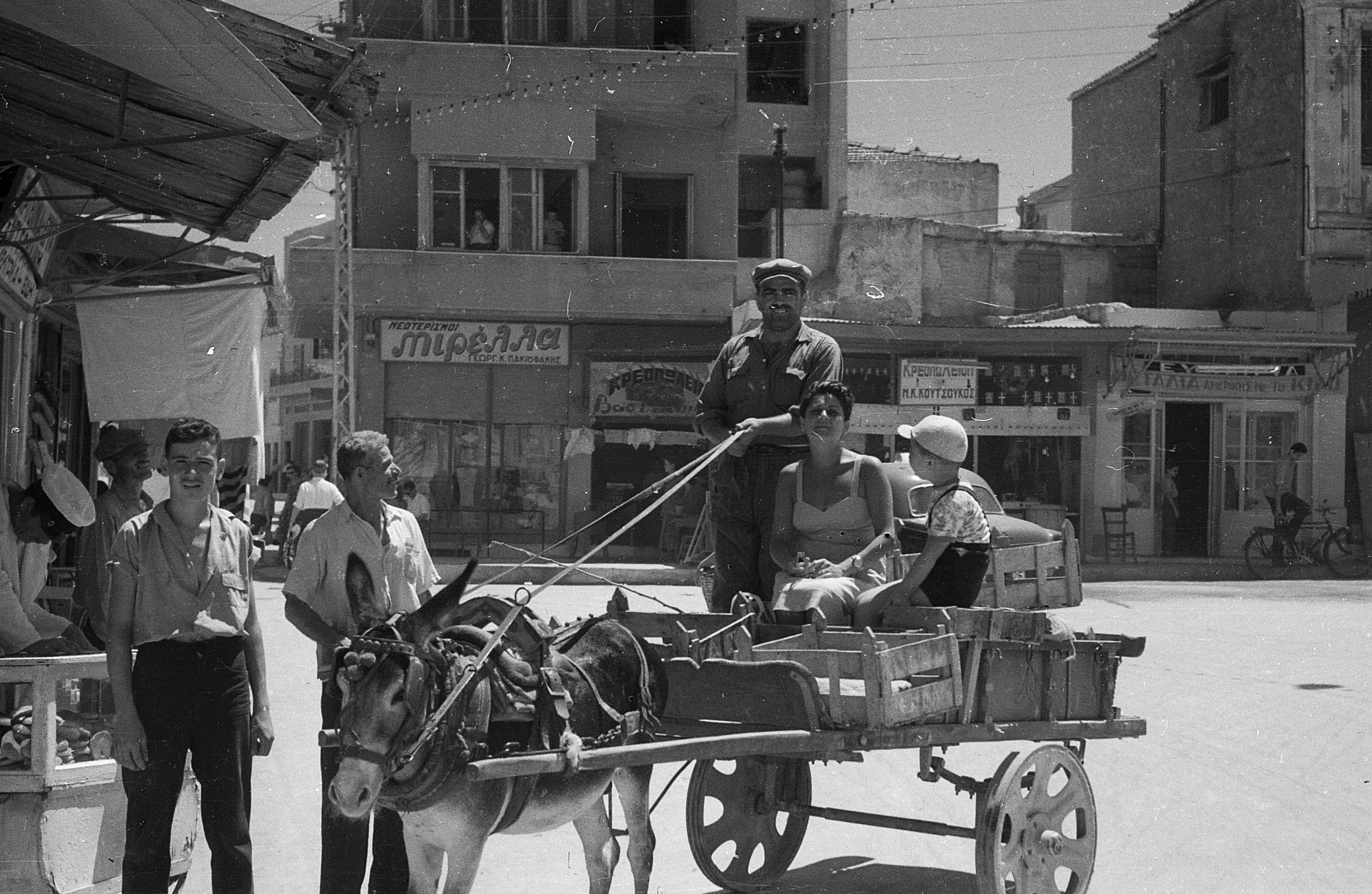 Location: Greece